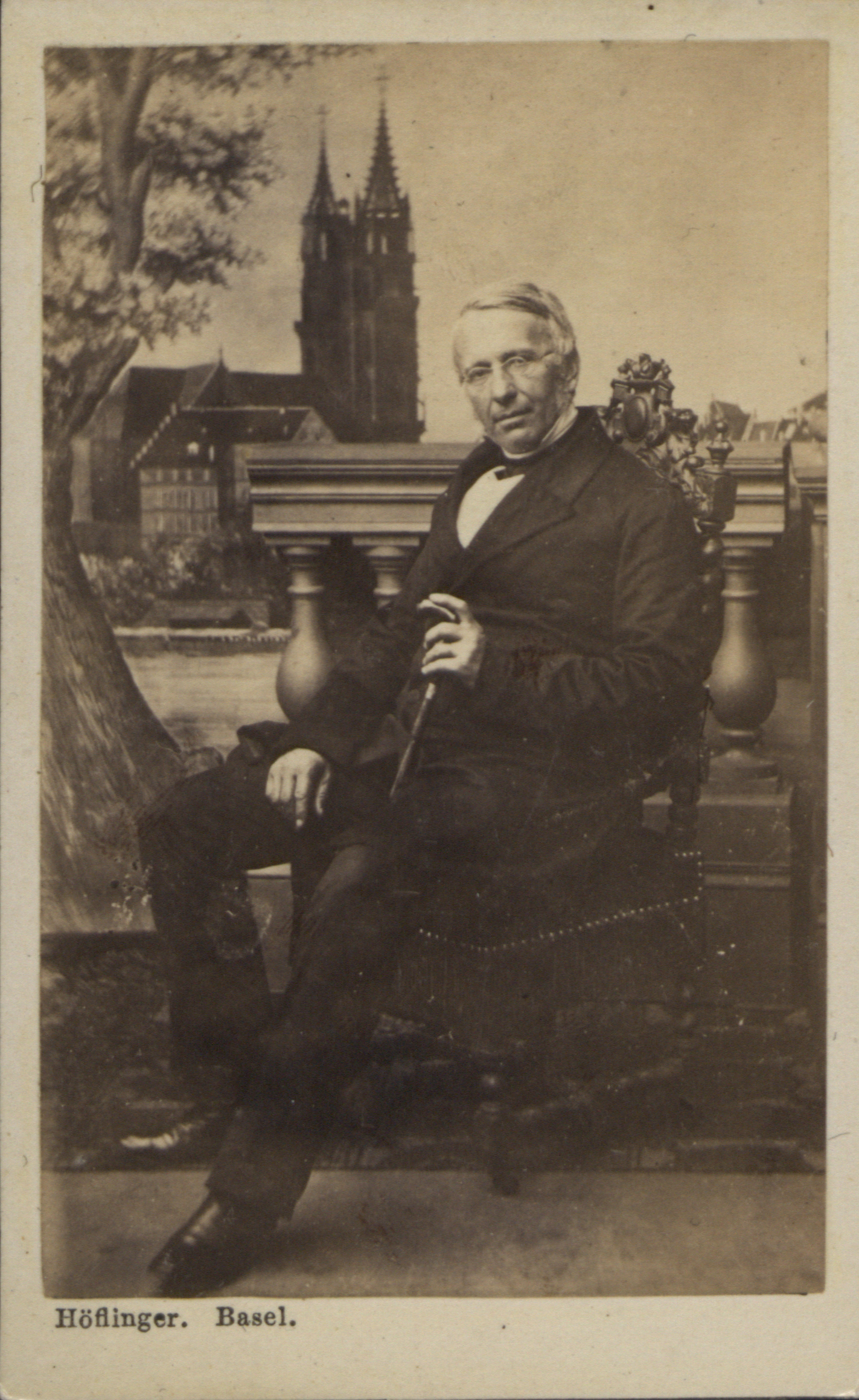 Portrait of Friedrich Miescher (1811-1887), photo